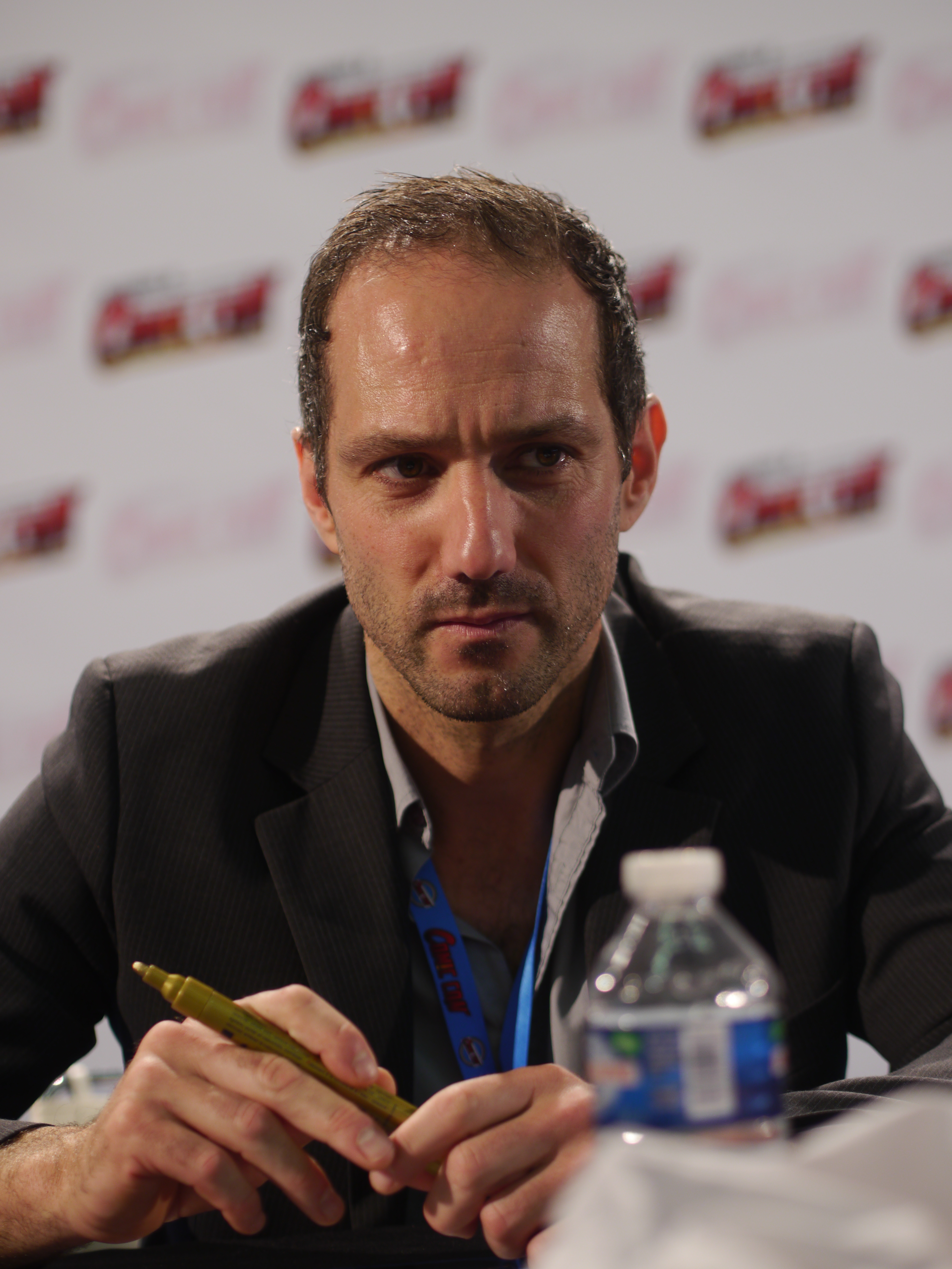 Japan Expo Festival, 14th impact